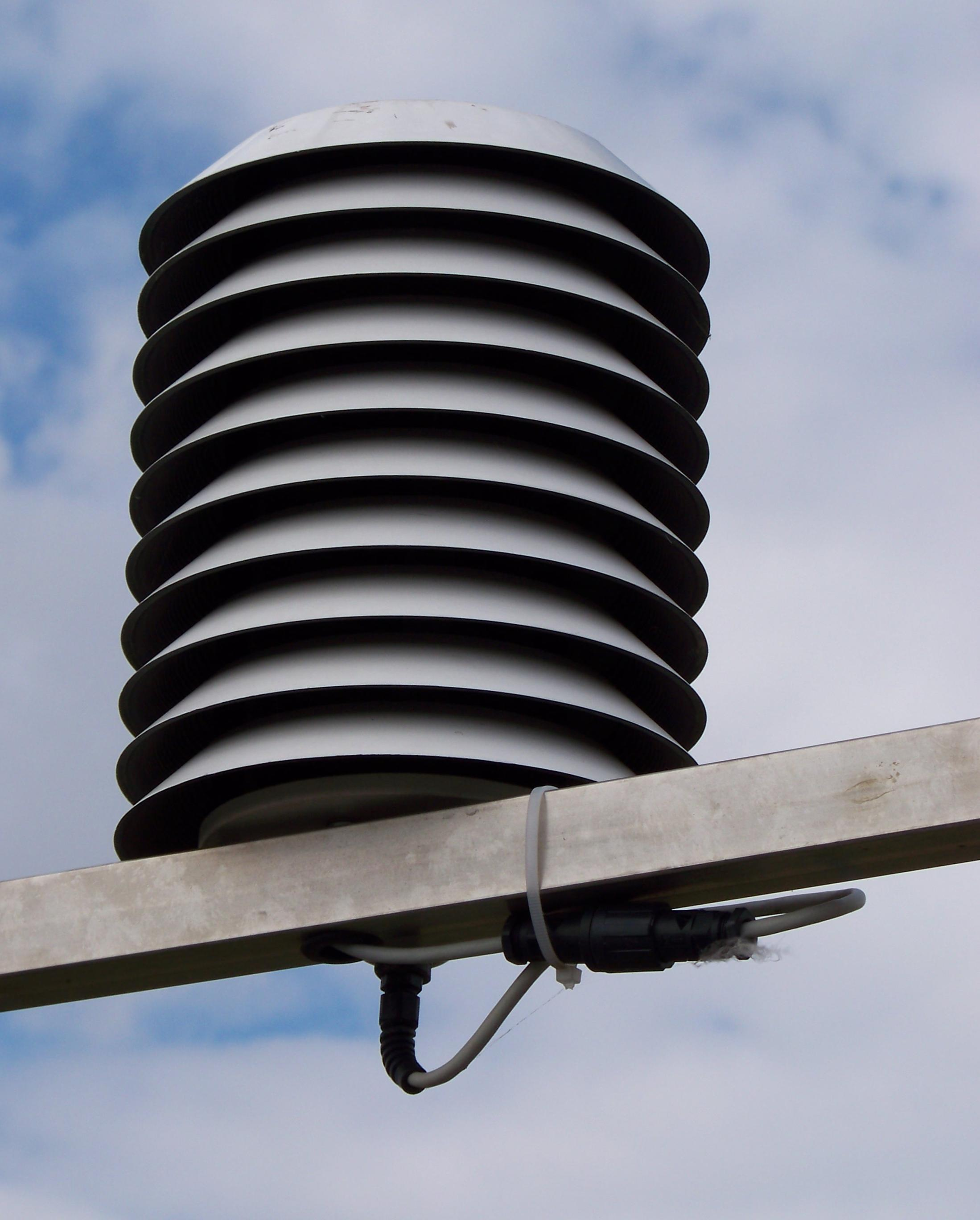 Zlatníky-Hodkovice, Prague-West District, Central Bohemian Region, the Czech Republic. Open Doors Day of the new section of Prague Beltway. Temperature and humidity measuring equipment near Exit 3.